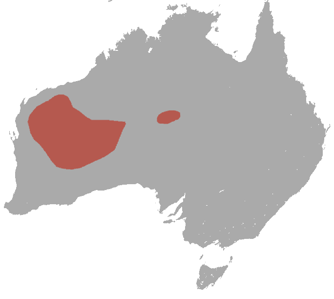 Long-tailed Dunnart (Sminthopsis longicaudata) range